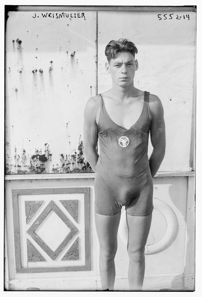 american swimmer Jonny Weissmuller